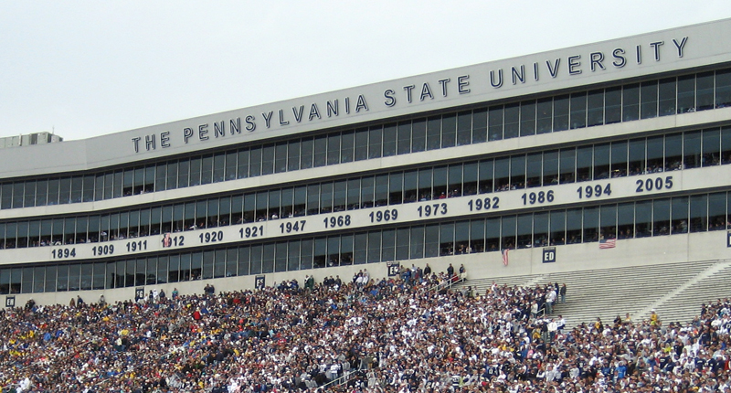 Description: Photograph of the luxury suites along the east side of Beaver Stadium on the University Park campus of Penn State University during a home football game, after the addition of lettering featuring the years of the Nittany Lions' undefeated, national championship and Bowl Championship Series bowl game seasons. Source: Taken by PSUMark2006 Date: Photo dated from 30 September 2006 Location: Beaver Stadium, University Park, Pennsylvania